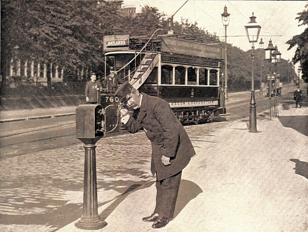 Street telephone for tramways (Rankin Kennedy, Electrical Installations, Vol V, 1903).jpg